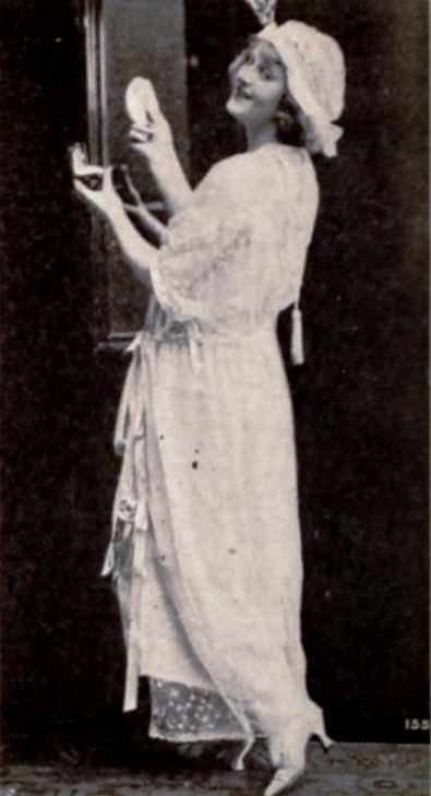 Actress Alma Francis, page 76 of the June 12, 1920 Exhibitors Herald.